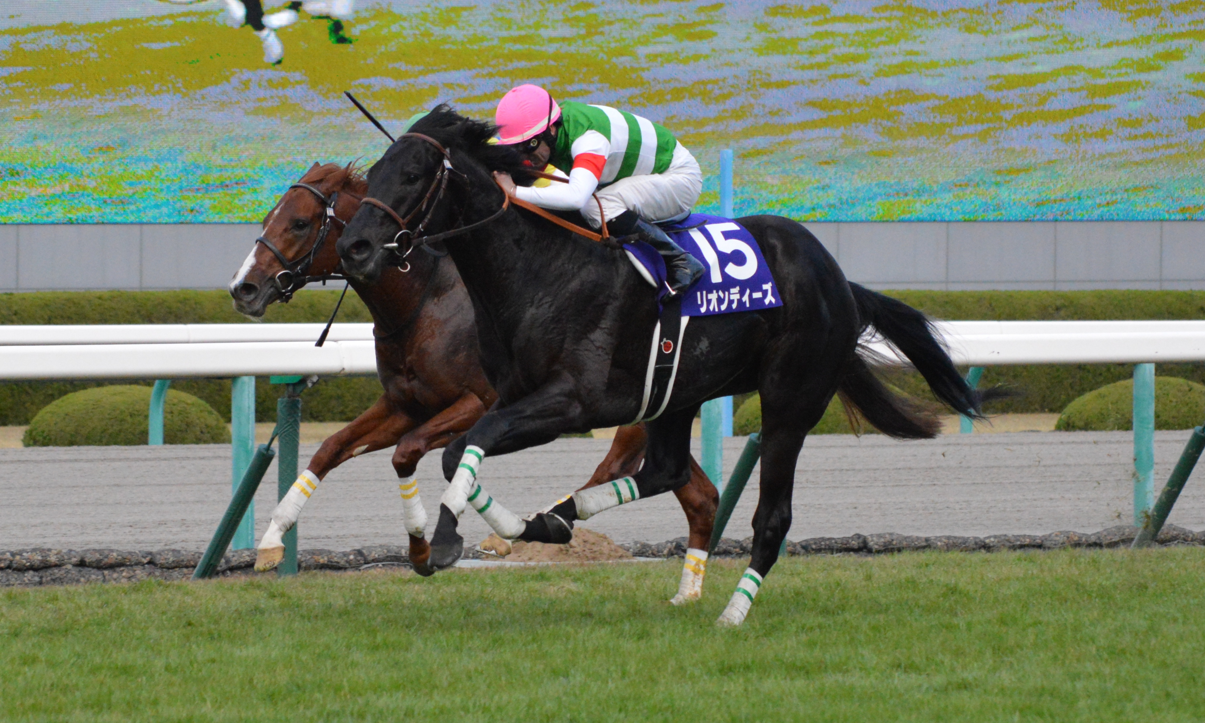 Japanese race horse Leontes at Hanshin racecourse. Hanshin (JPN) 20 Dec 2015Asahi Hai Futurity Stakes (Grade 1) (2yo Colts & Fillies) (Turf) (2yo) 1m Good RankHorse NameOddsAgeWgtJockeyTrainer1stLeontes (JPN)49/10C28-9Mirco DemuroKatsuhiko Sumii2ndAir Spinel (JPN)1/2FC28-9Yutaka TakeKazuhide SasadaOthers are omitted. (16 horses entered in a race.)